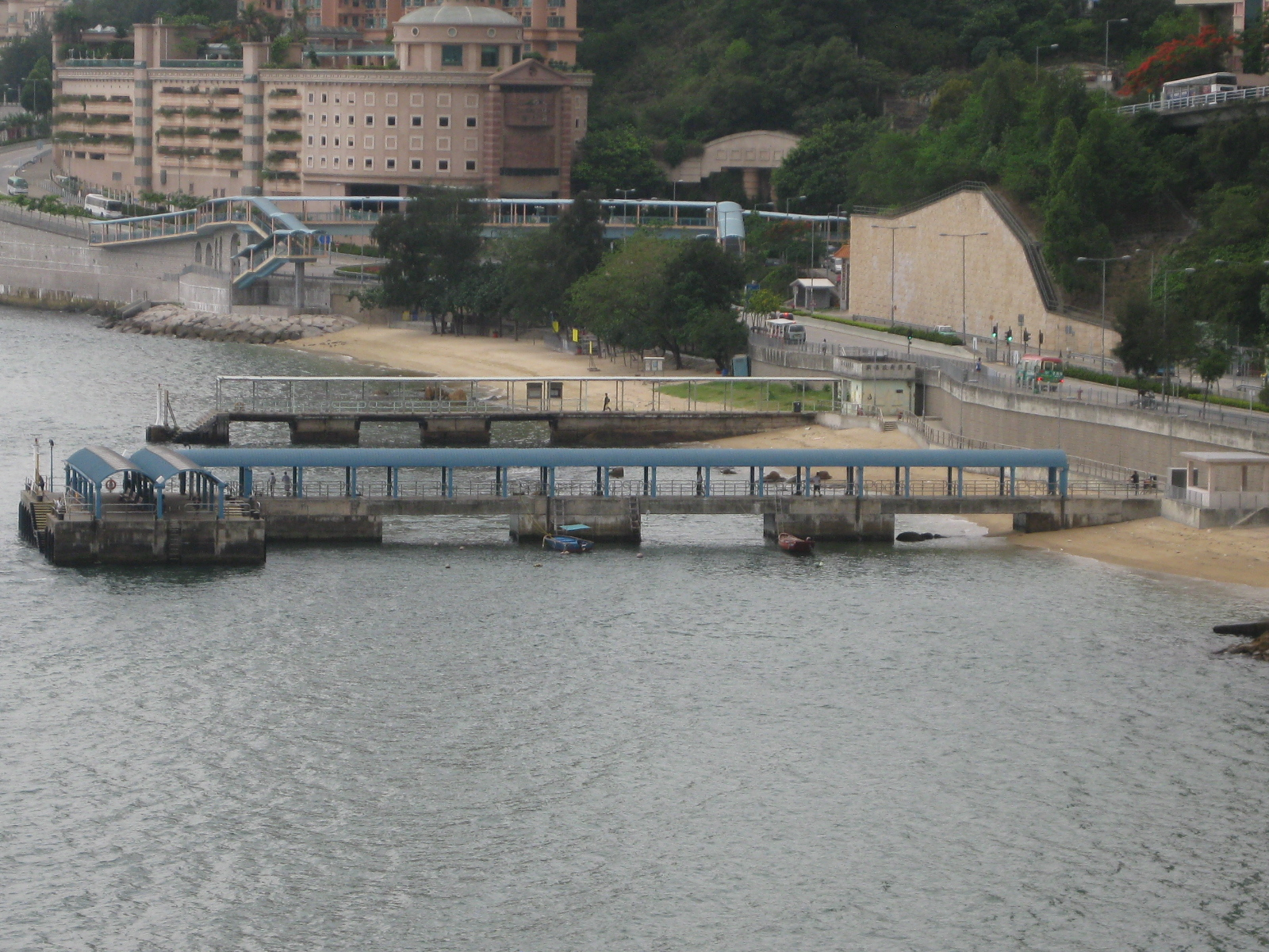 Ma Wan Pier overview